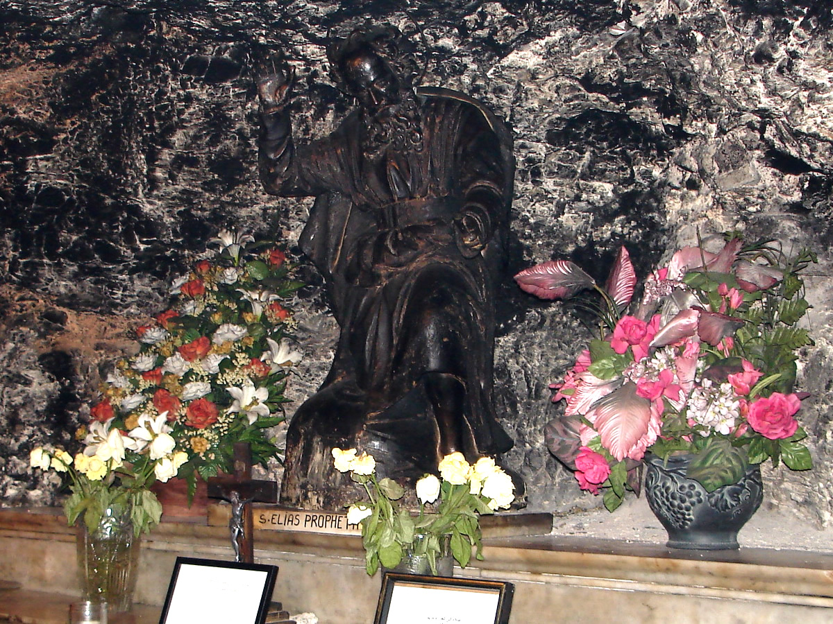 A statue in the Cave of Elijah. The cave is located on Mount Carmel, Haifa, Israel.